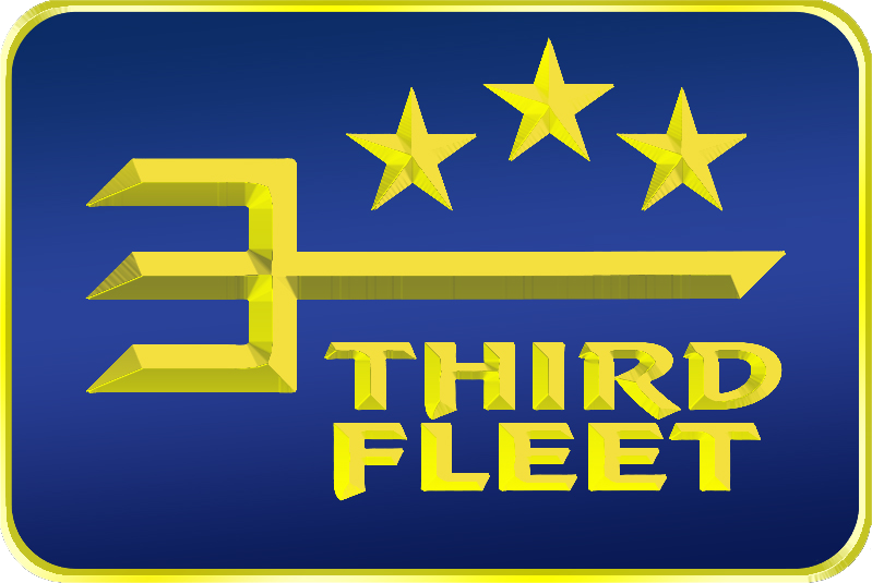 Insignia of the United States Third Fleet.